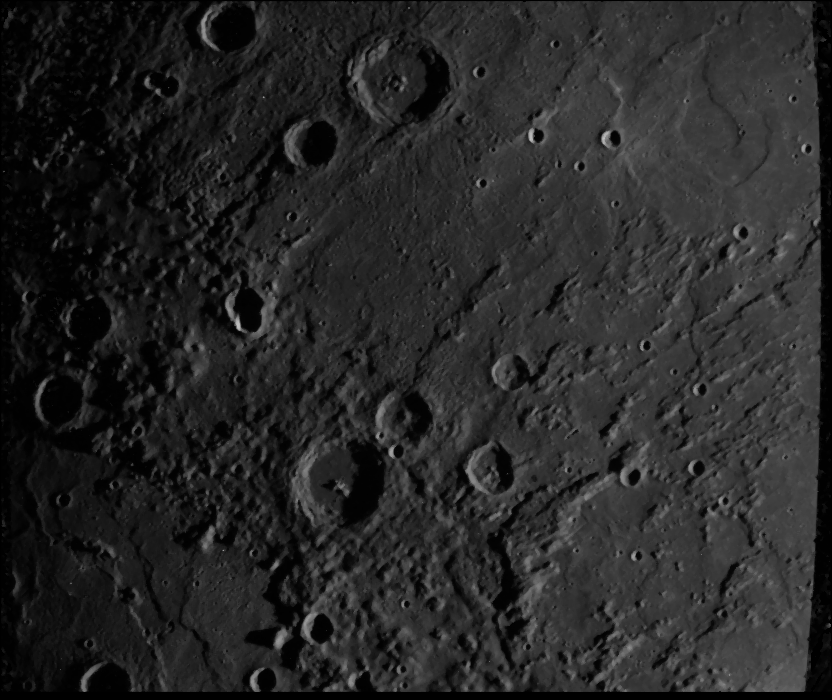 Image Number: 0000193GMT: 1974:088:22:43:26Start Time: 1974-03-29T22:43:26.254ZLatitude: 37.74° to 51.93°Longitude: 168.53° to 187.44°Resolution (meters per pixel): 642Incidence Angle: 81.75°Emission Angle: 24.48°Phase Angle: 76.76°